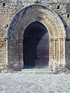 see user:Attilios talk for images from